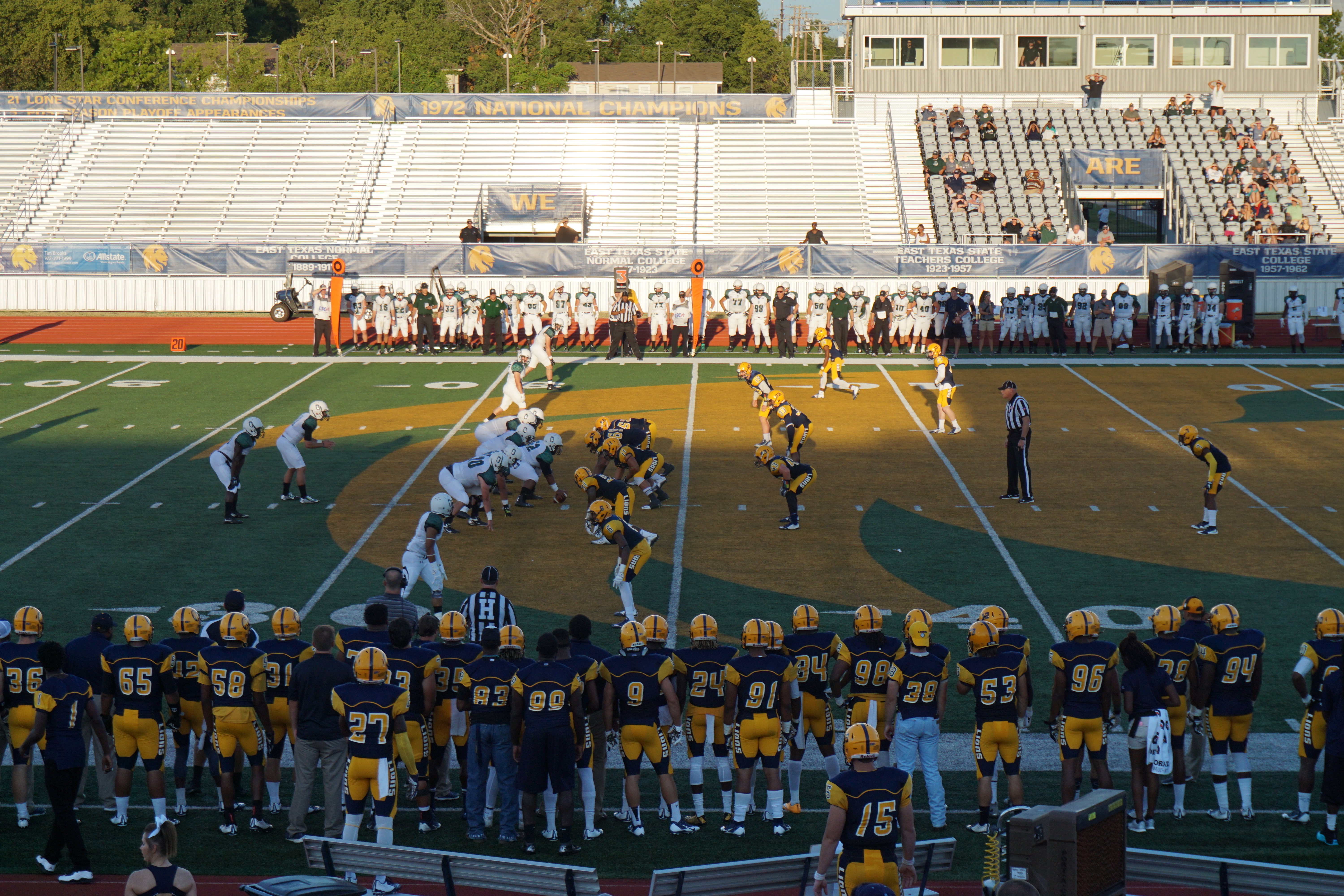 Adams State on offense during the Adams State Grizzlies vs. Texas A&M–Commerce Lions football game at Memorial Stadium in Commerce, Texas (United States). A&M–Commerce won 48–17.